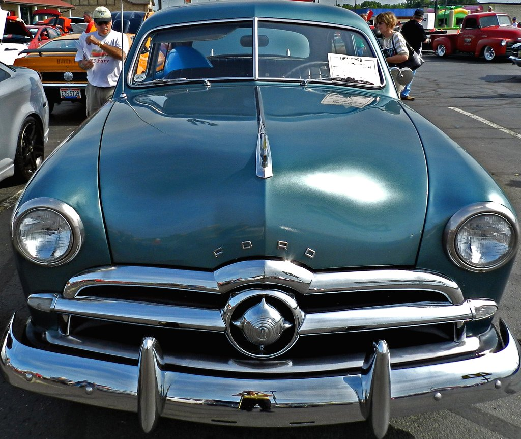 When I saw this 62-year-old Ford in mint condition at the ORSR show in Wheelersburg, Ohio it brought memory of my first new car purchase. My car was red, came with overdive and AM radio, cost just over $2,000. My first ride in a 1949 Ford was during August 1948 in Manchester, Iowa where I was staying overnight in a hotel. The local Ford dealer was giving free rides along the gravel roads of Delaware County. Interest was high when Ford made this major change. Early models had problems, but the quality of the one I bought in the summer of 1949 was much improved.